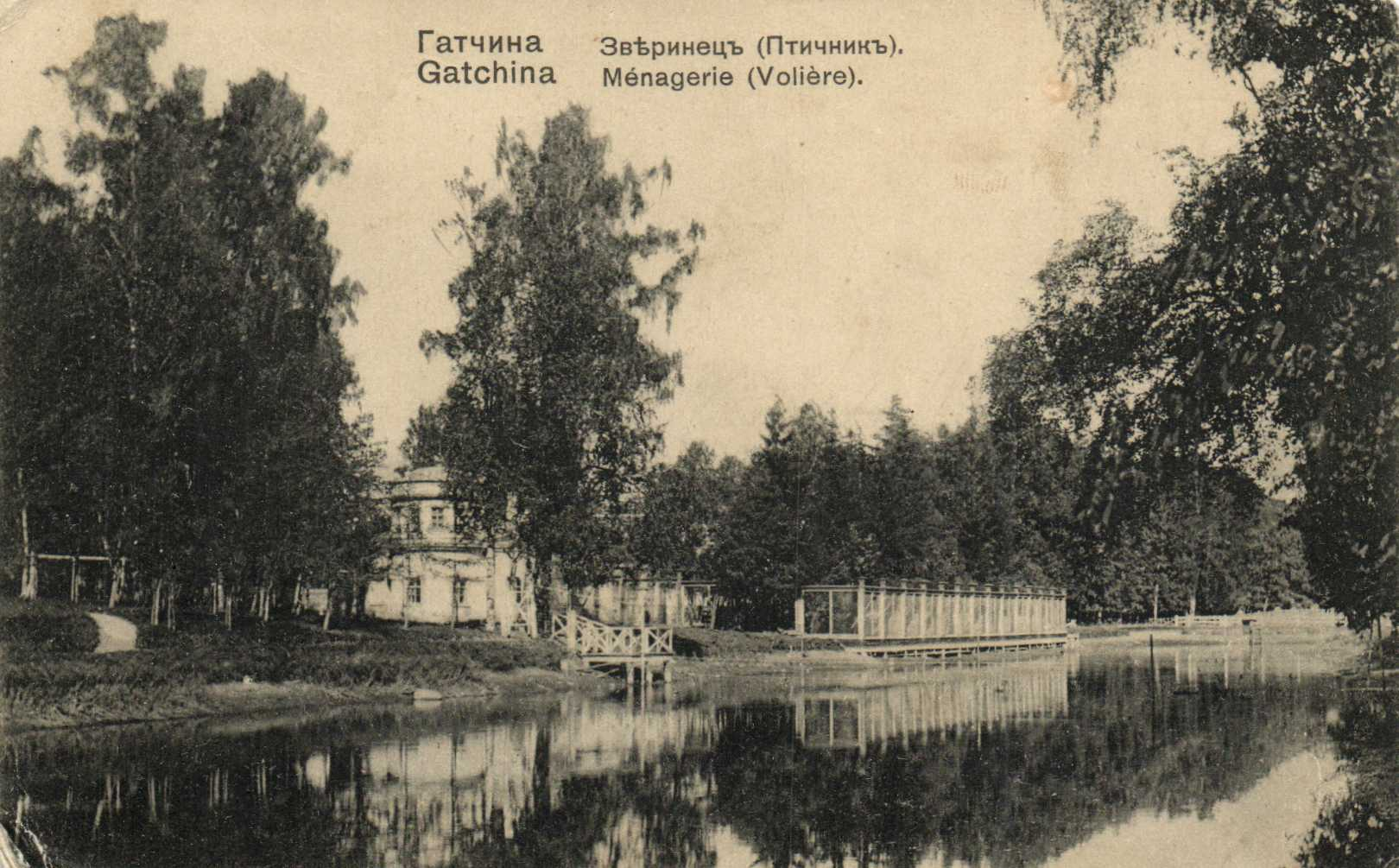 Bird pavilion (transliterated from Russian as "Ptichnik"), Gatchina, Russia, 1900s postcard